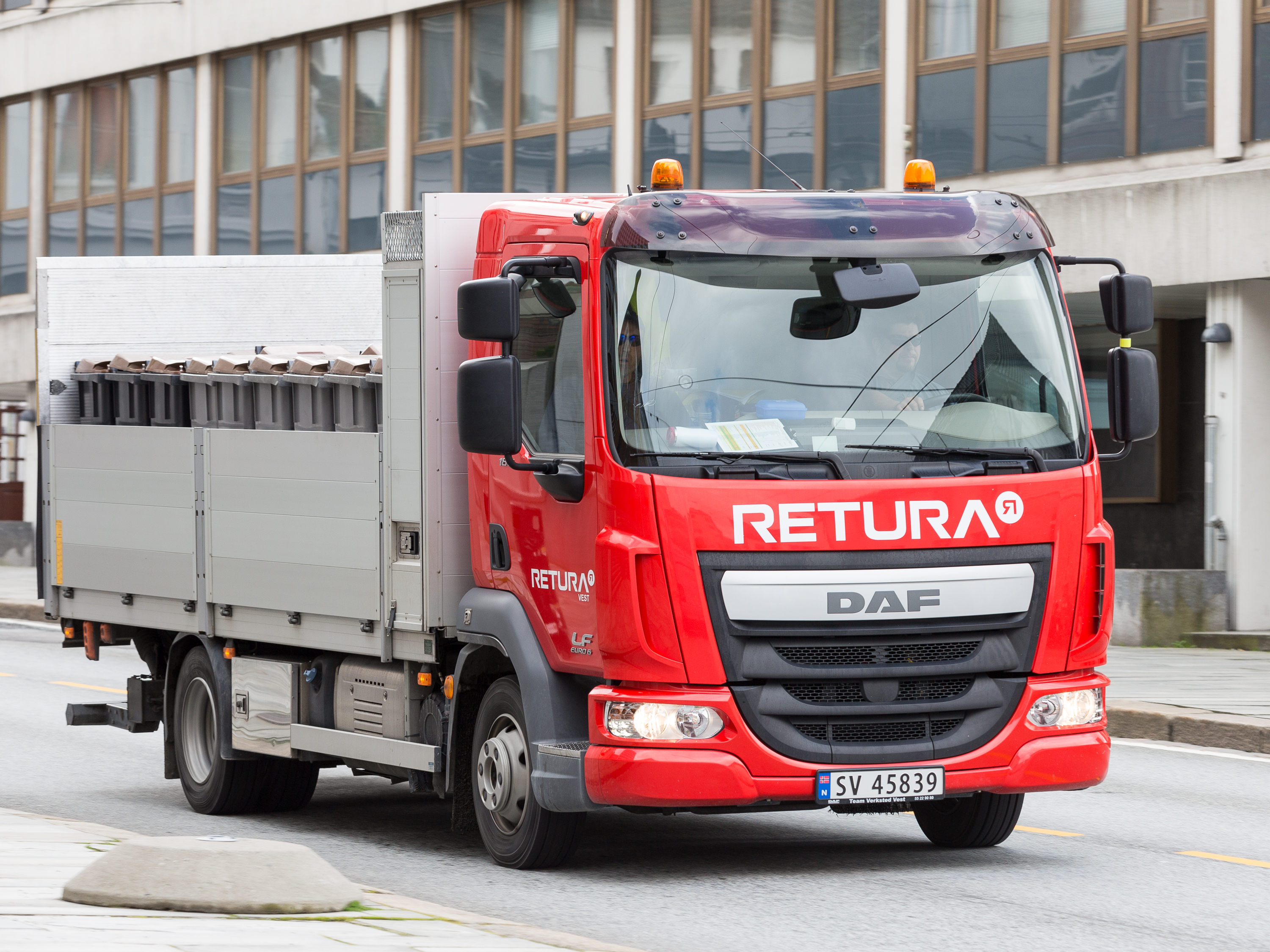 DAF LF 180 Euro 6 (2013 Version)